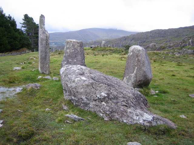 Cashelkeelty Stone Circles. The remains of two stone circles can be seen here. The nearer group of three stones is the western circle, while the eastern group of five stones is visible by the fence. The Beara Way footpath passes close by.